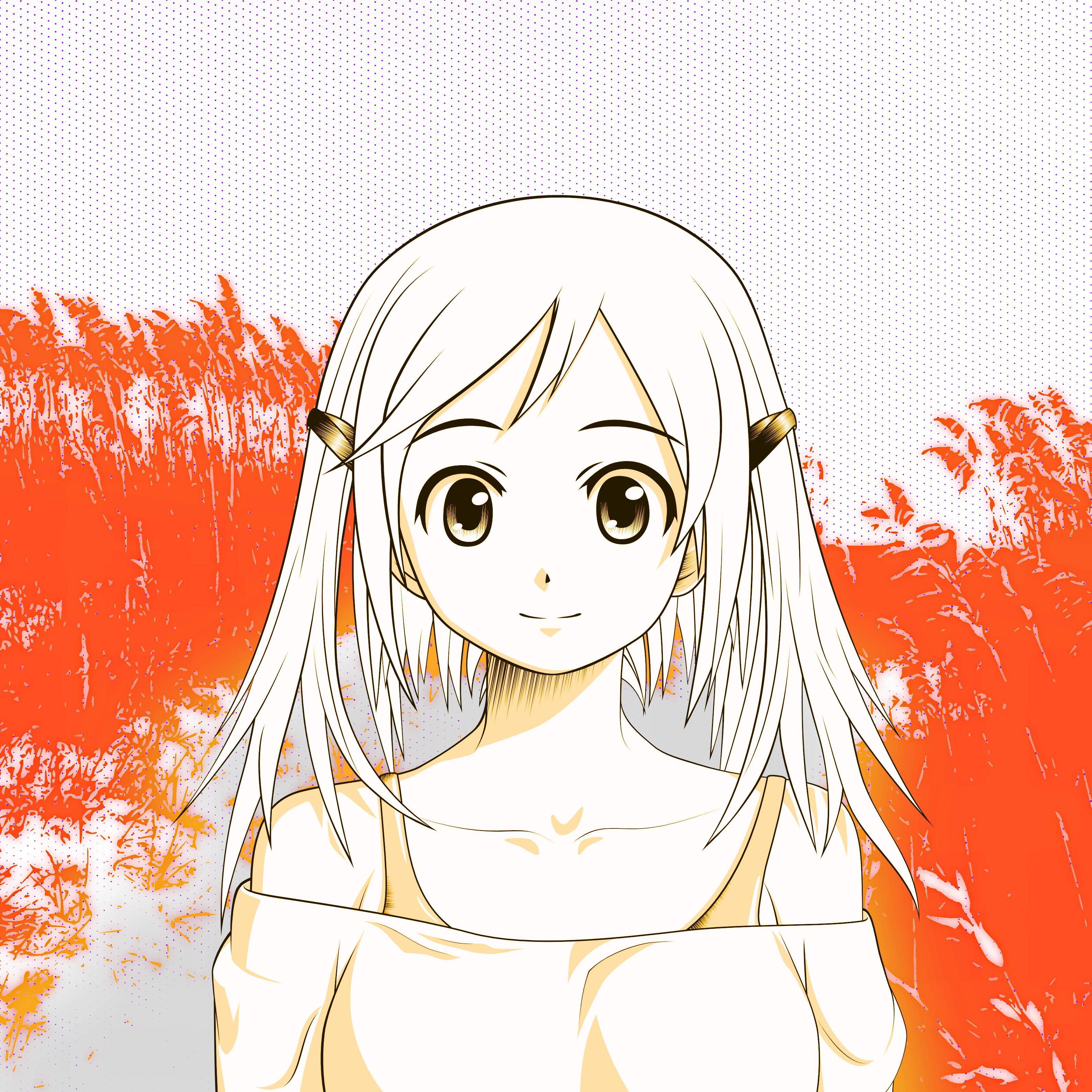 Female figure in manga style (simple colored)